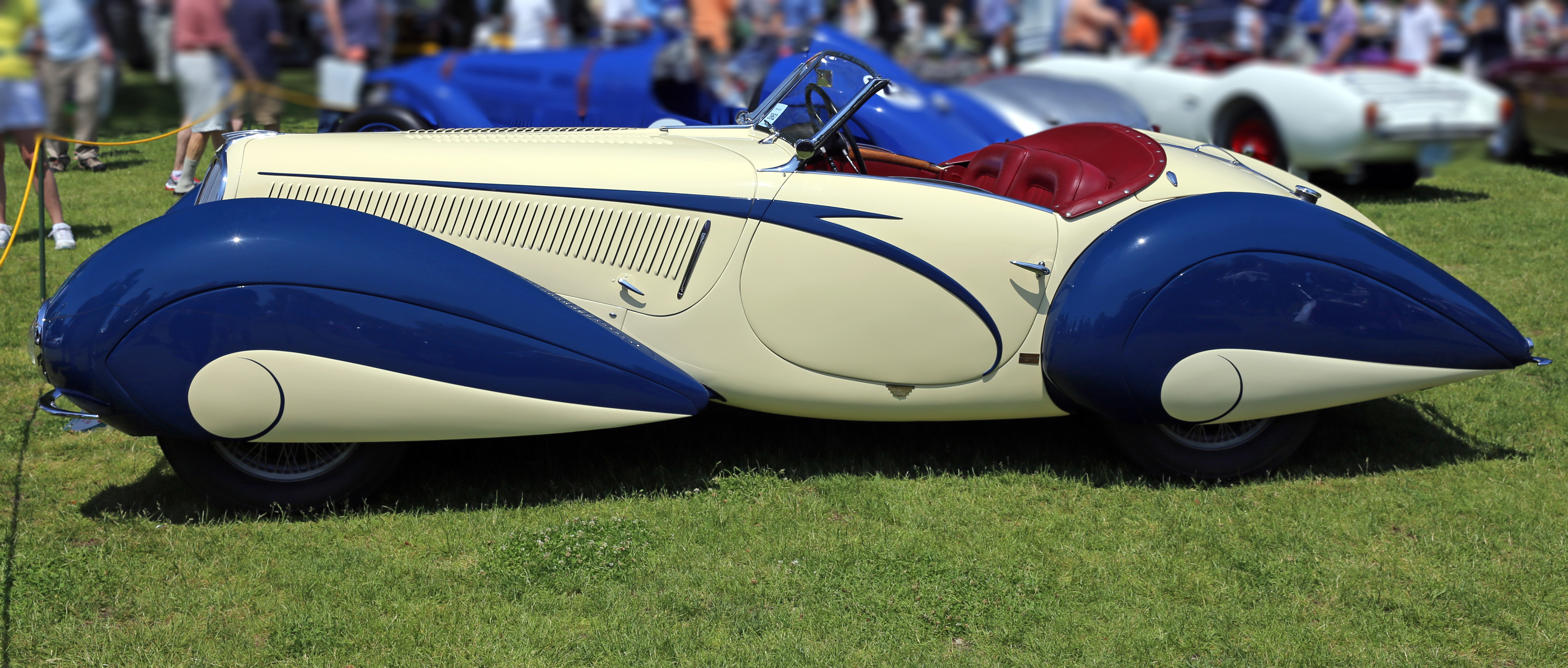 1937 Delahaye 135M roadster by Figoni et Falaschi at the 2013 Greenwich Concours d'Elegance. It was there in 2008 as well.